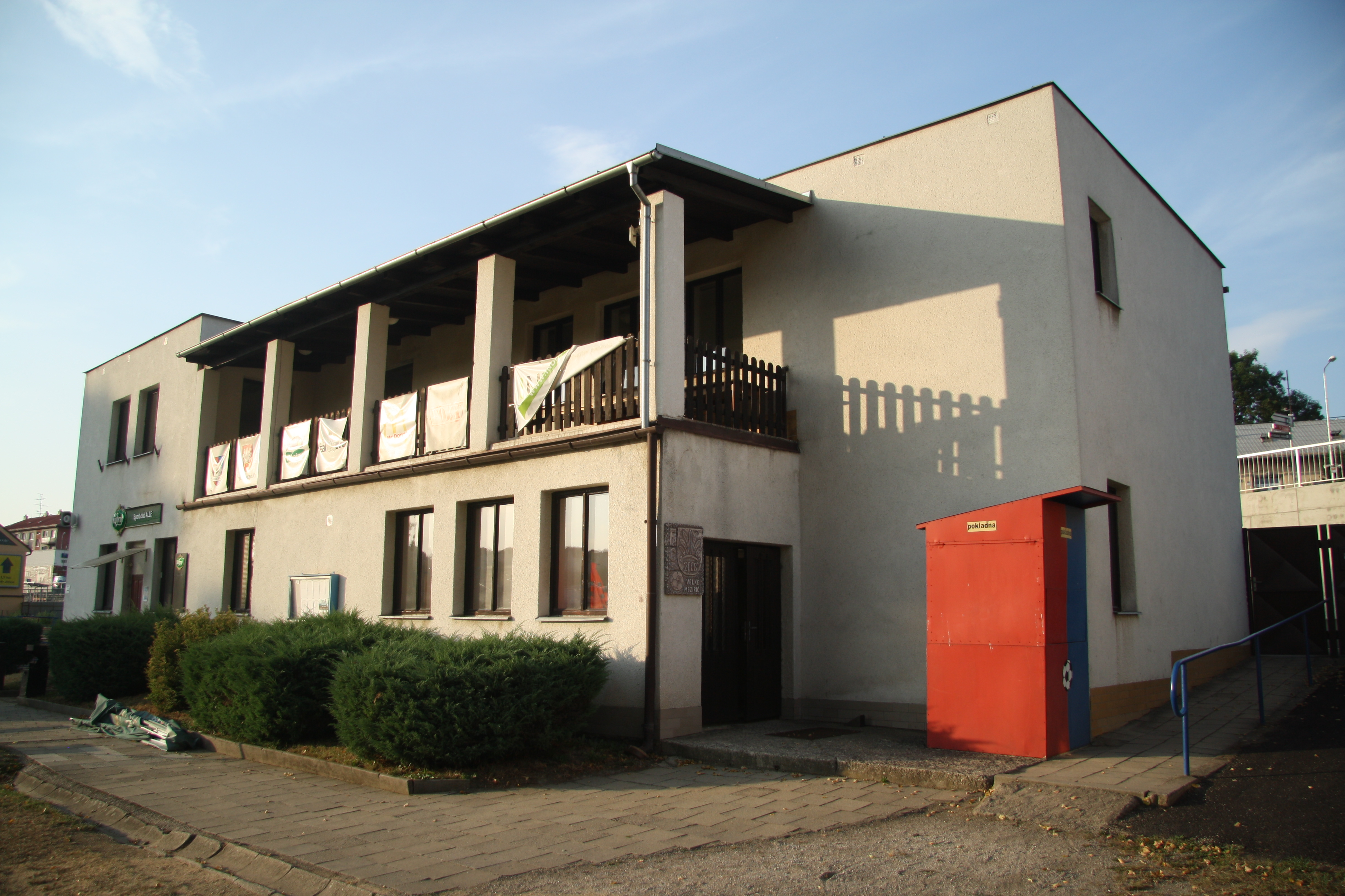 Building with balcony of FC Velké Meziříčí in Velké Meziříčí, Žďár nad Sázavou District.